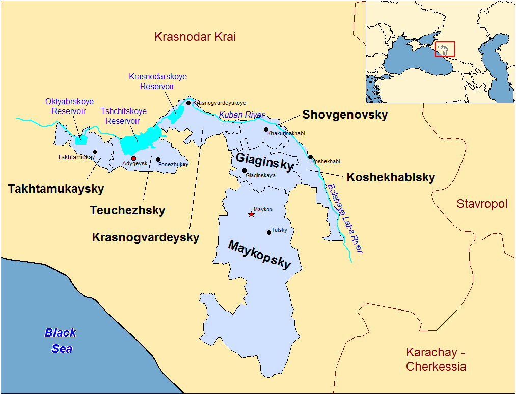 Map of the districts of the Adygea republic of Russia. Created by Rarelibra 13:10, 30 March 2007 (UTC) for public domain use, using MapInfo Professional v8.5 and various mapping resources.